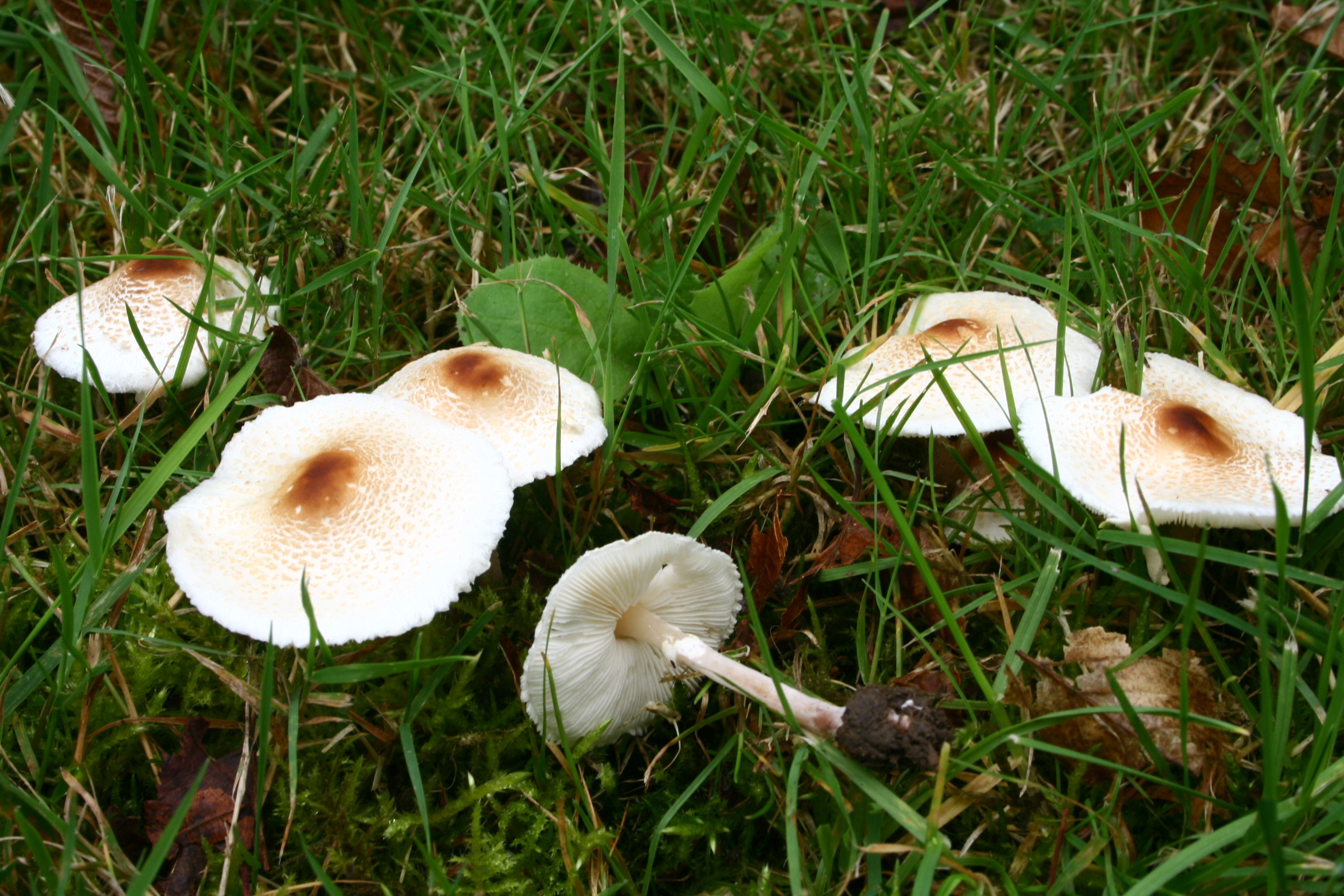 Lepiota cristata in a park in Massy, France.